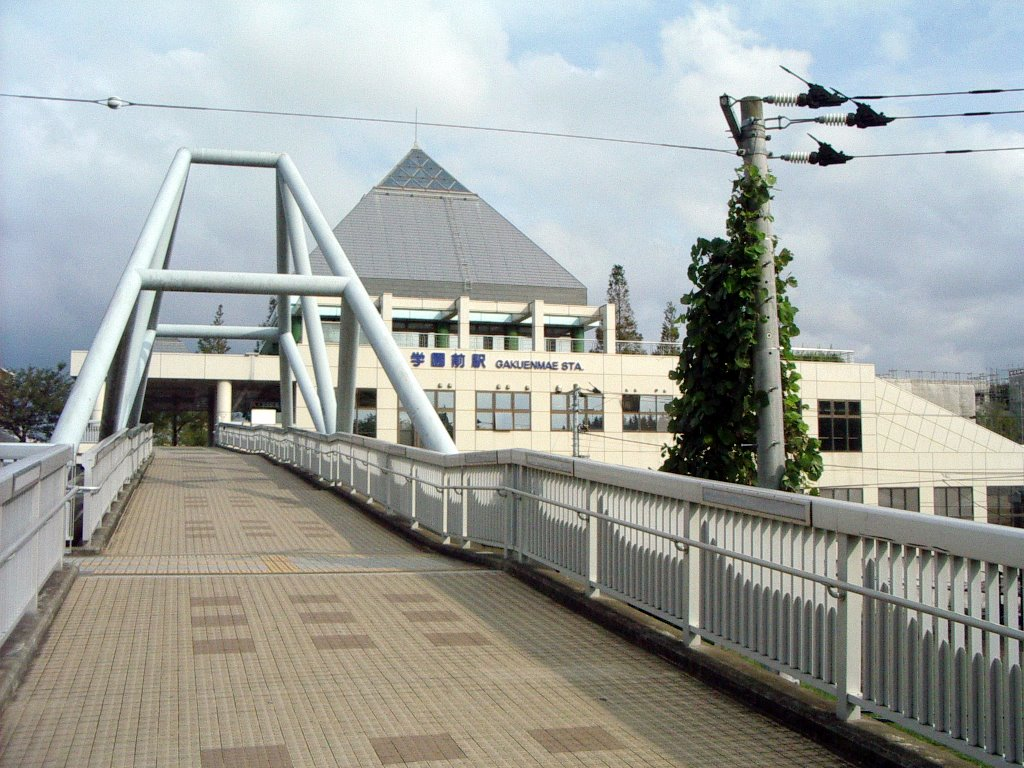 Gakuen-mae Station on Keisei Chihara line.